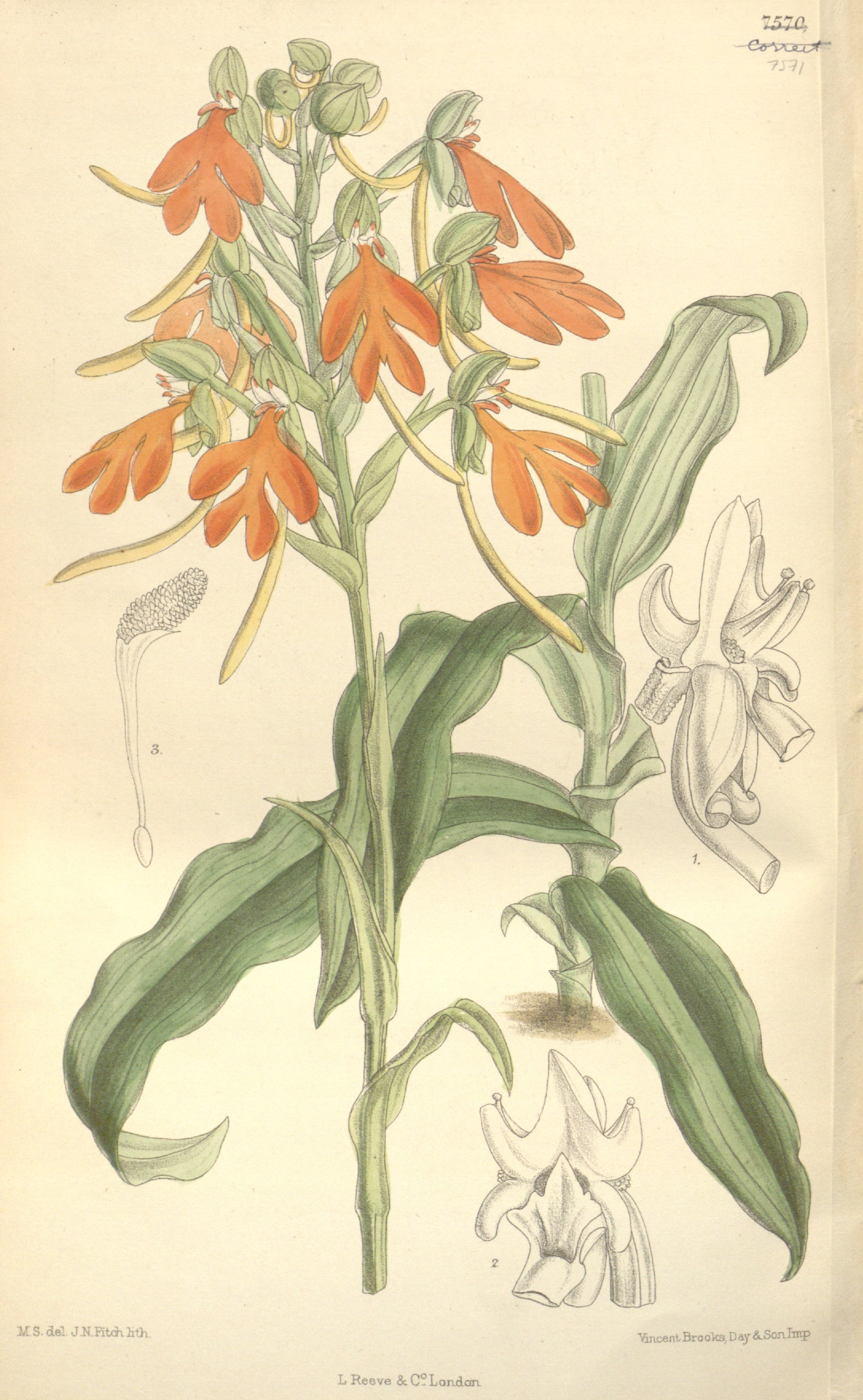 Illustration of Habenaria rhodocheila